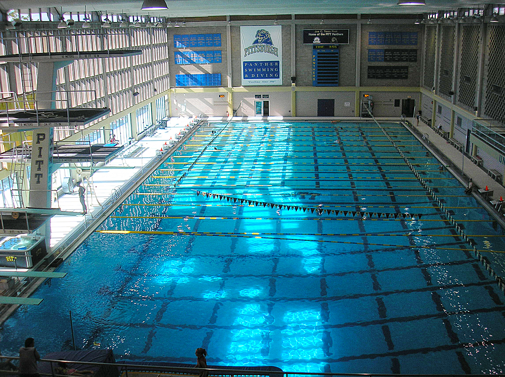 Trees Pool at the University of Pittsburgh